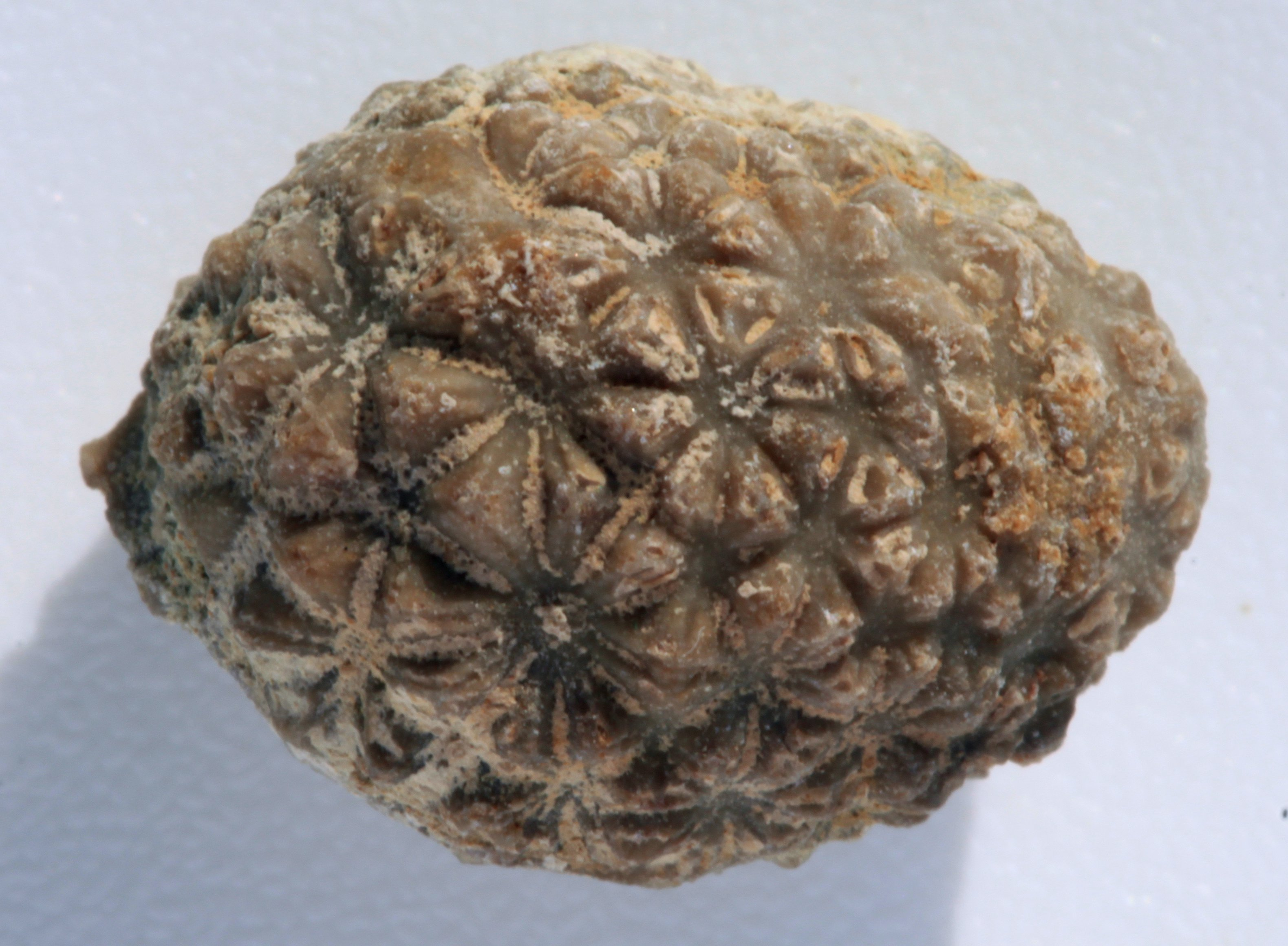 A Cystoid, Oklahomacystis tribrachiatus, 17mm, found in the Bromide Formation Oklahoma, USA, from the Middle Ordovician (Blackriverian)